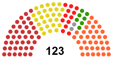 Composition of the Senate of Romania, 2012